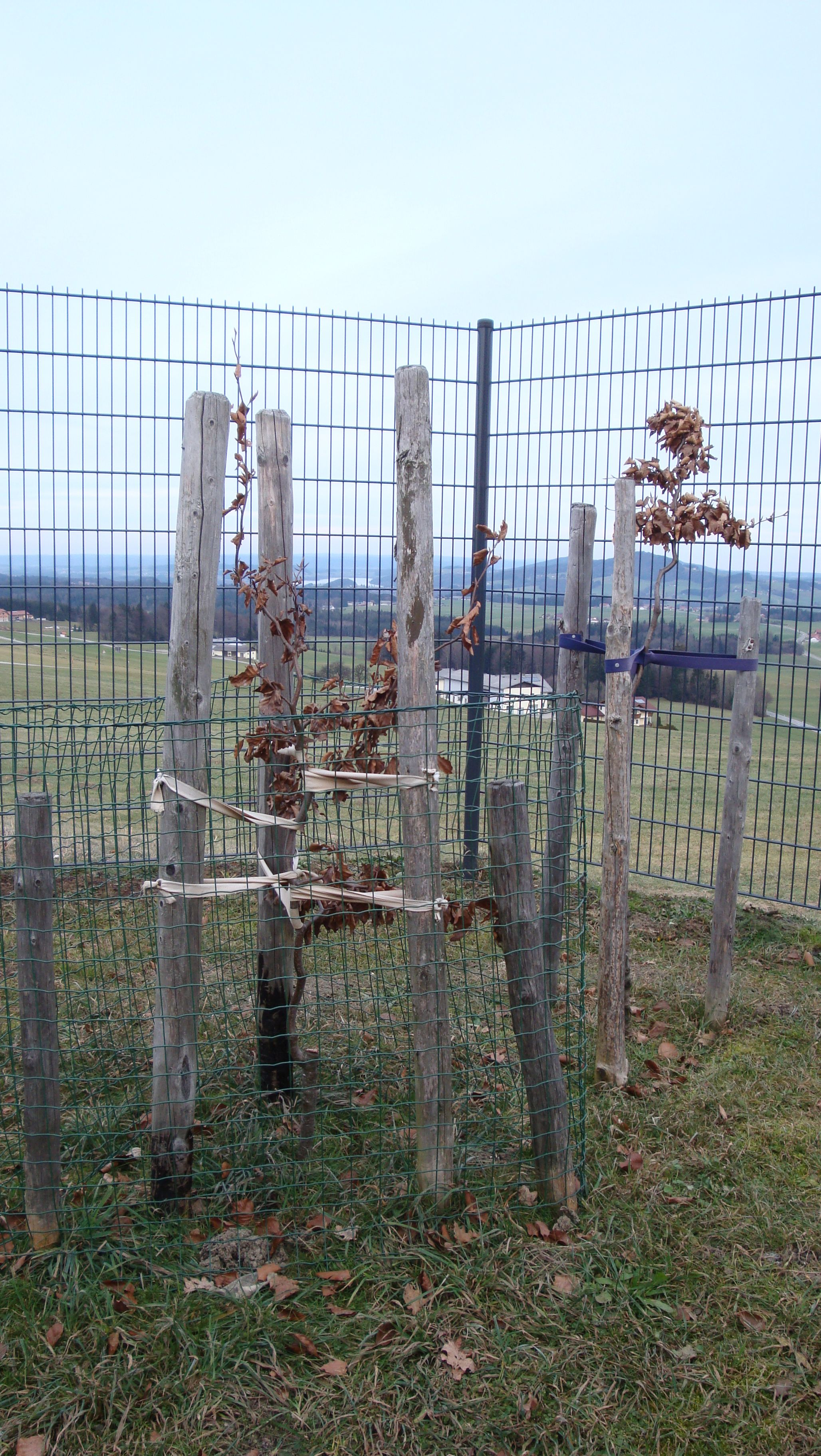 The new Kaiserbuche. The old tree standing at the same place was called "Kaiserbuche am Haunsberg" and it was a protected natural monument in Salzburg with the ID NDM00013. This original tree fell down during a tempest in the year 2004. It was replaced by a new tree, which is a protected natural monument with the ID NDM00252 now.